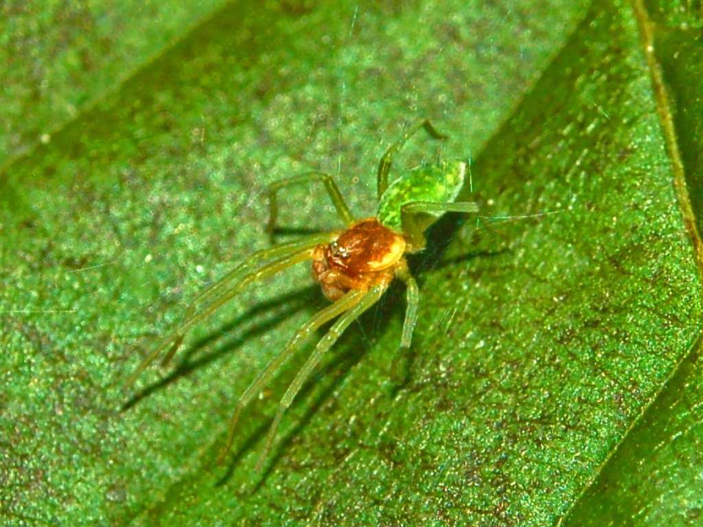 Nigma walckenaeri in Praha